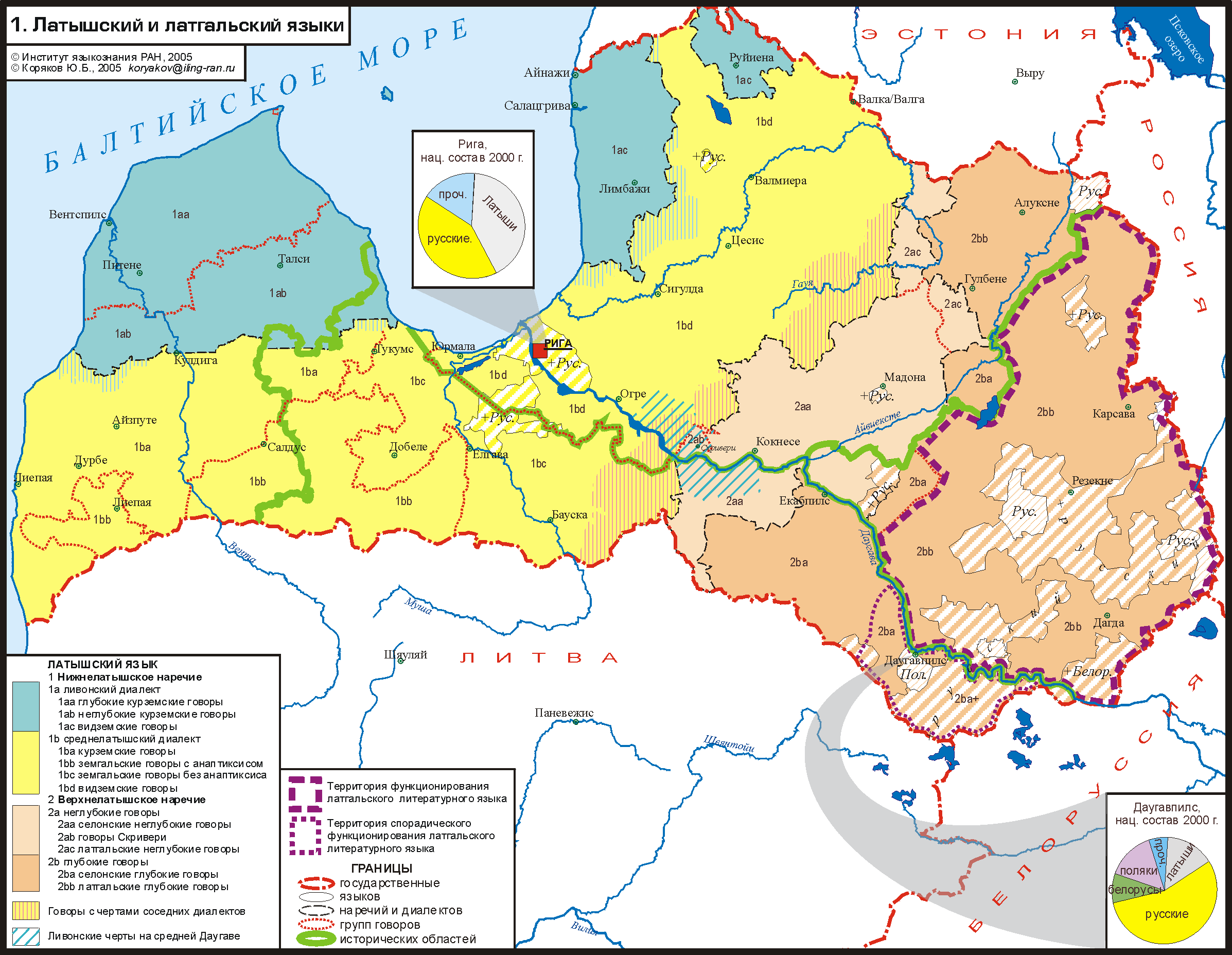 The map shows distribution of dialects of Latvian and standard form of Latgalian. As of 2000.